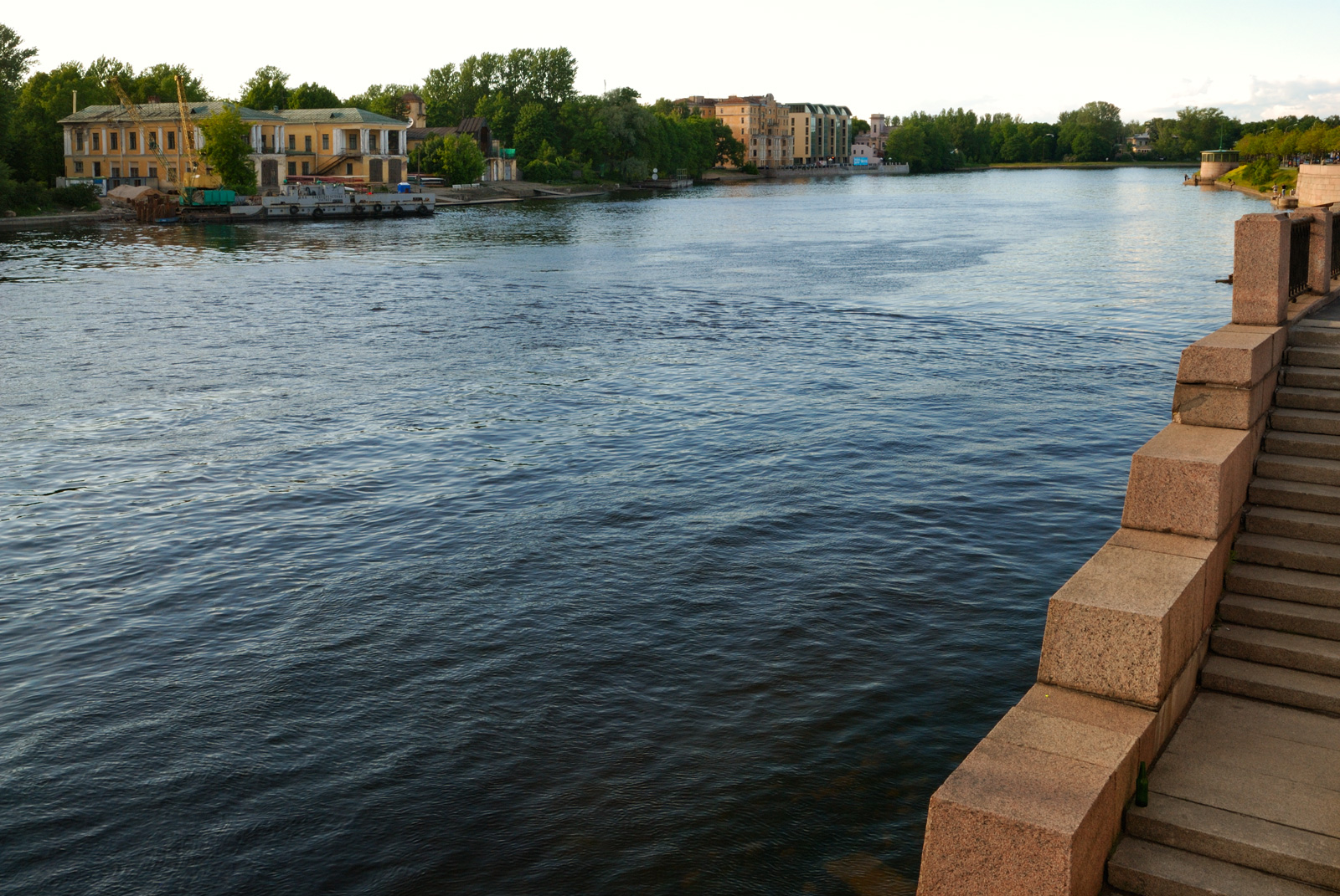 Malaia Nevka river in Sankt-Petersburg from Bolshoi Krestovskii bridge